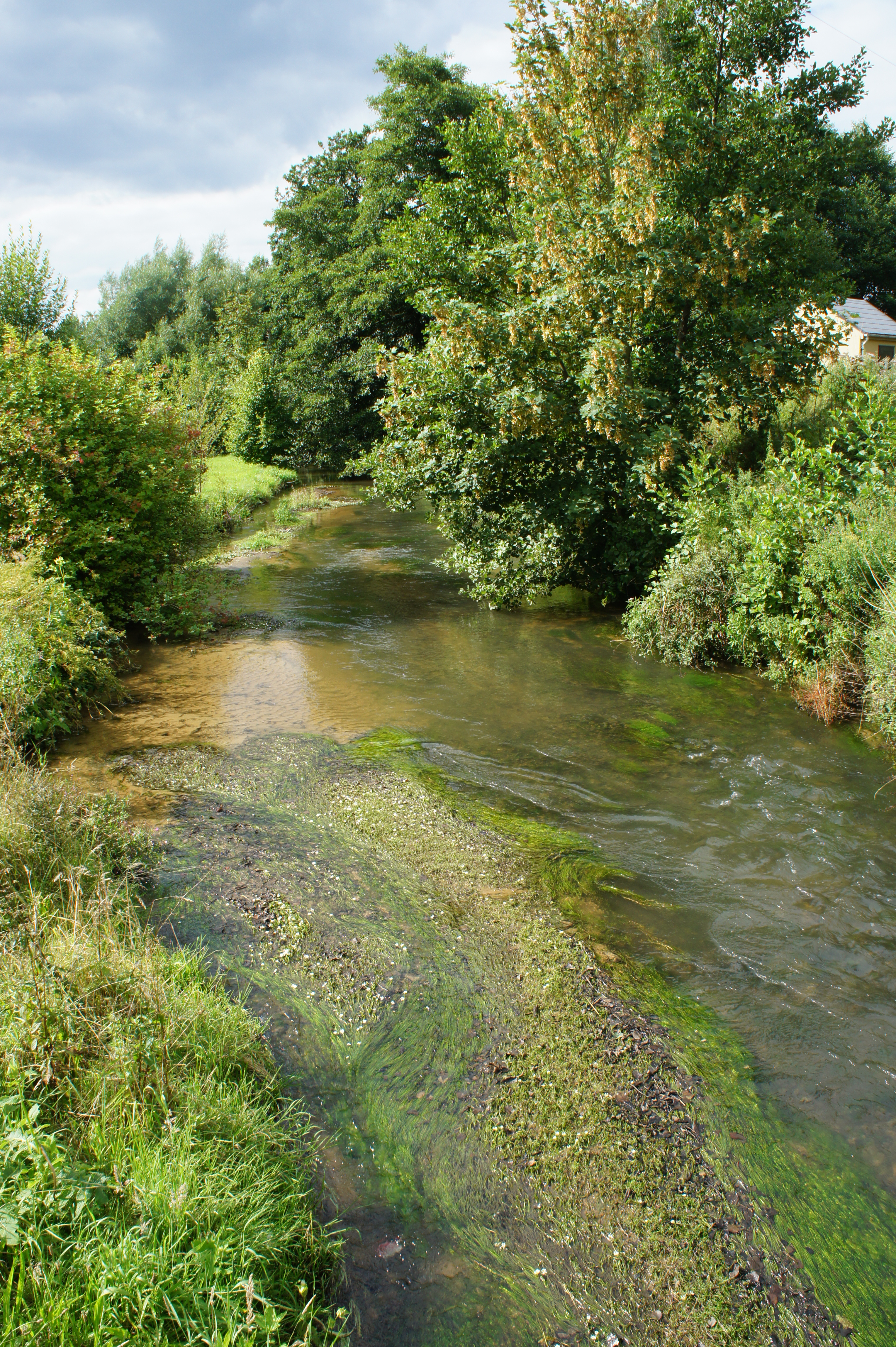 The Chevratte in Dampicourt